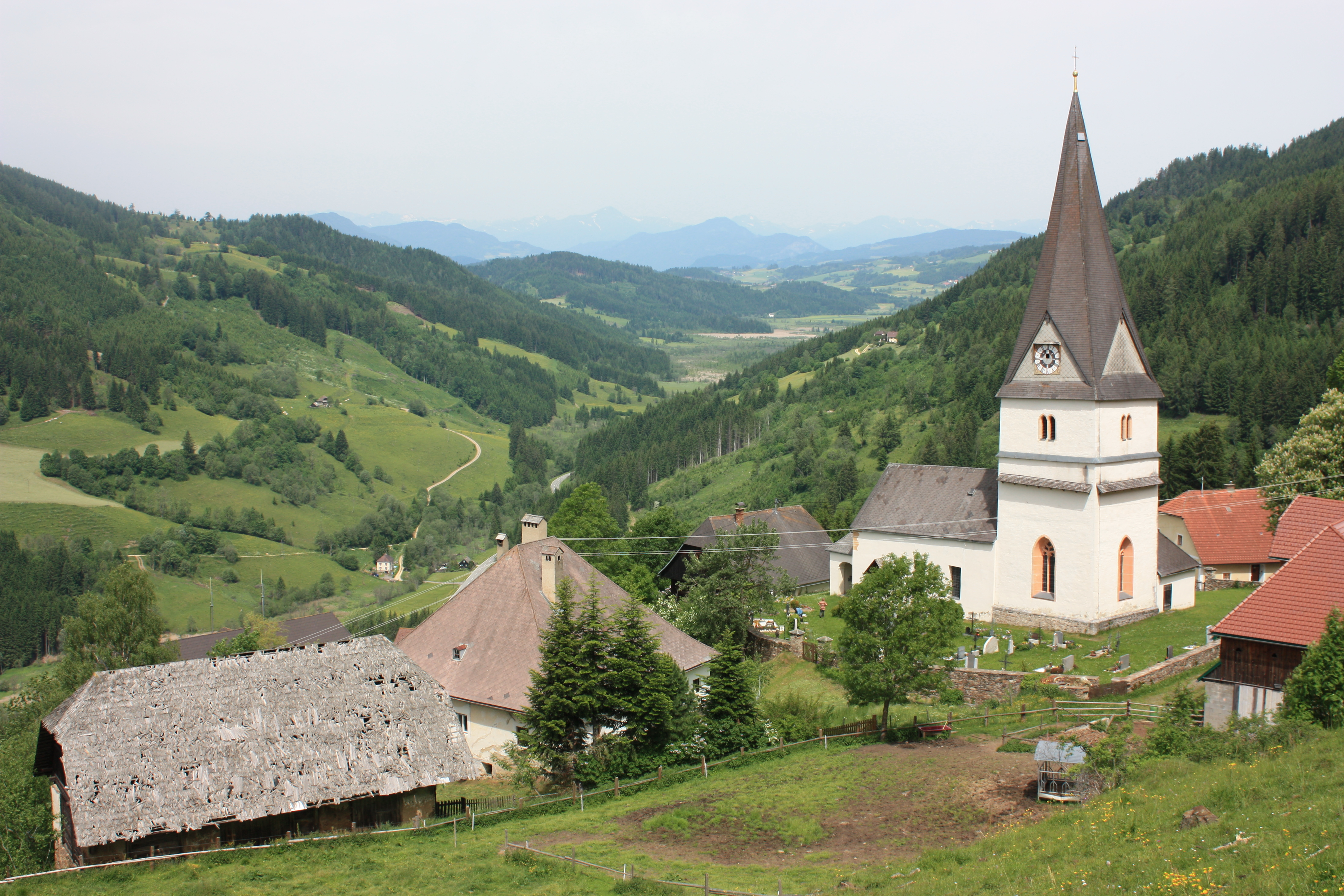 St Martin am Silberberg in the community of Hüttenberg